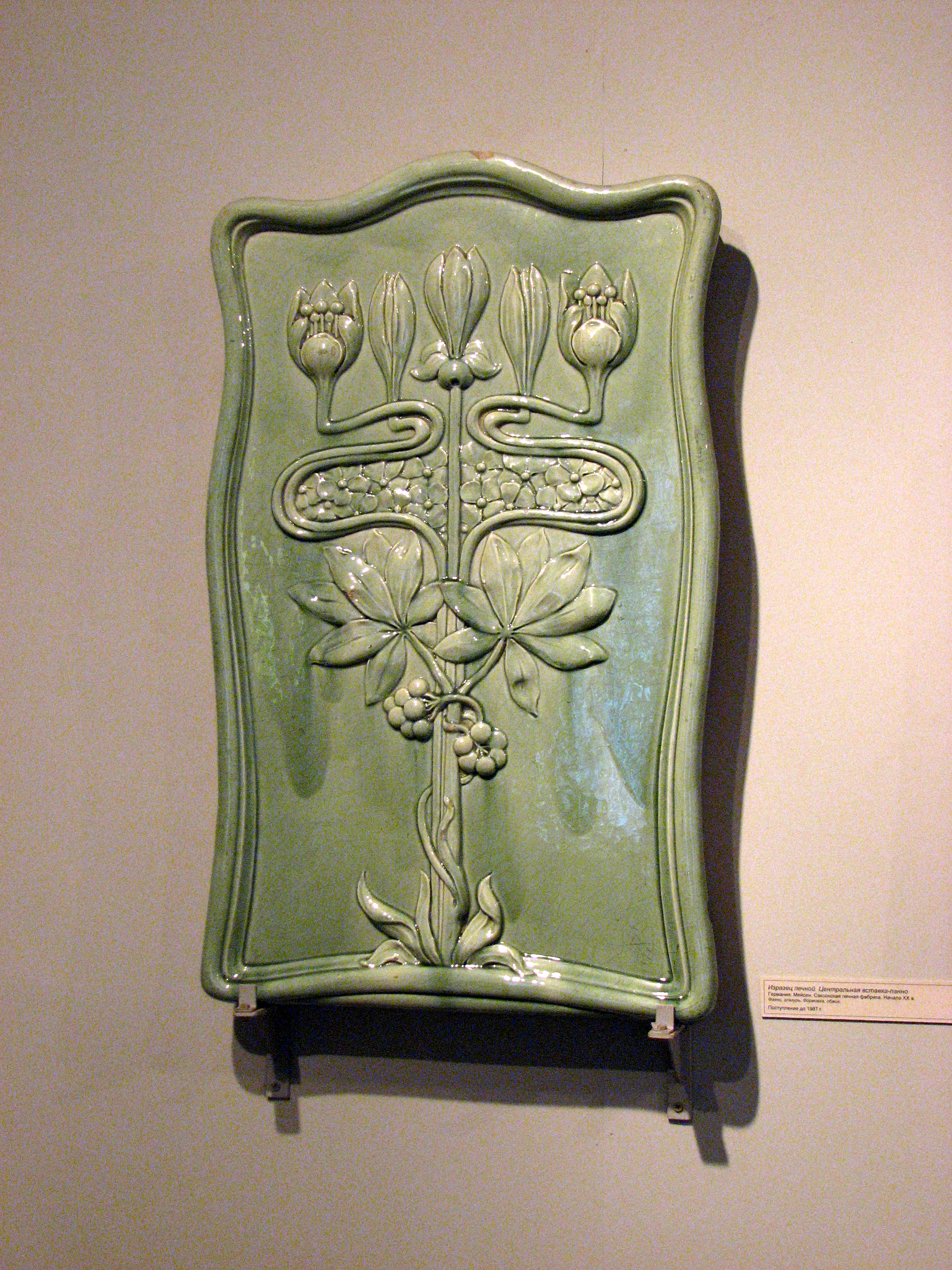 Saint Petersburg. Exposition «Old Petersburg» (in the Engineering house of the Peter and Paul Fortress). Oven tile. The central insert-panel. It is made at Saxon oven factory (1900th years; Meissen, Germany). Faience, glaze.